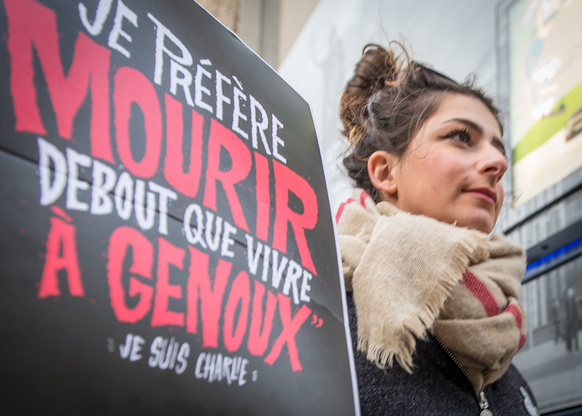 Paris rally in support of the victims of the 2015 Charlie Hebdo shooting, 11 January 2015. La citation est de Charb.